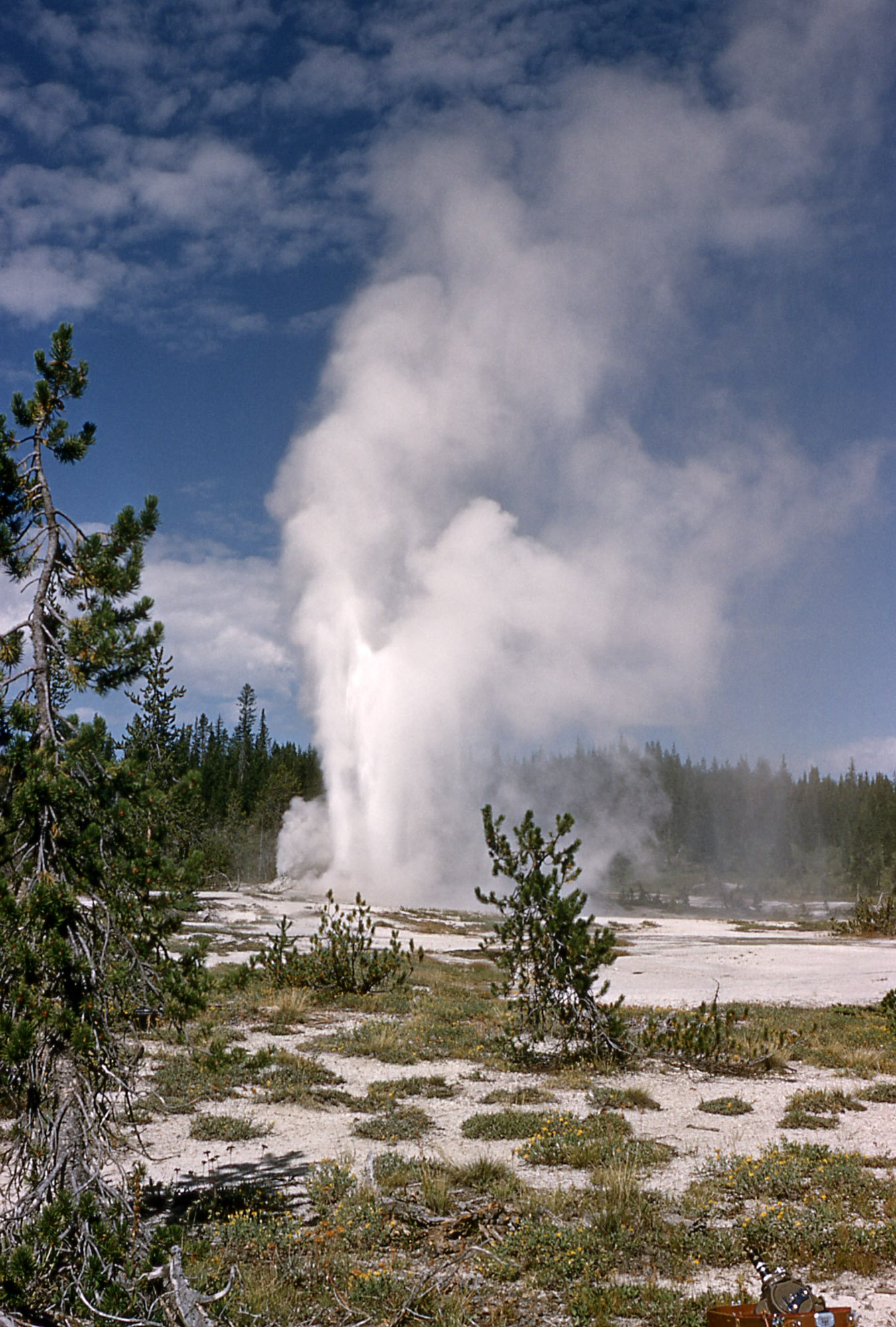 Union Geyser, Shoshone Geyser Basin, Yellowstone National Park, Wyoming